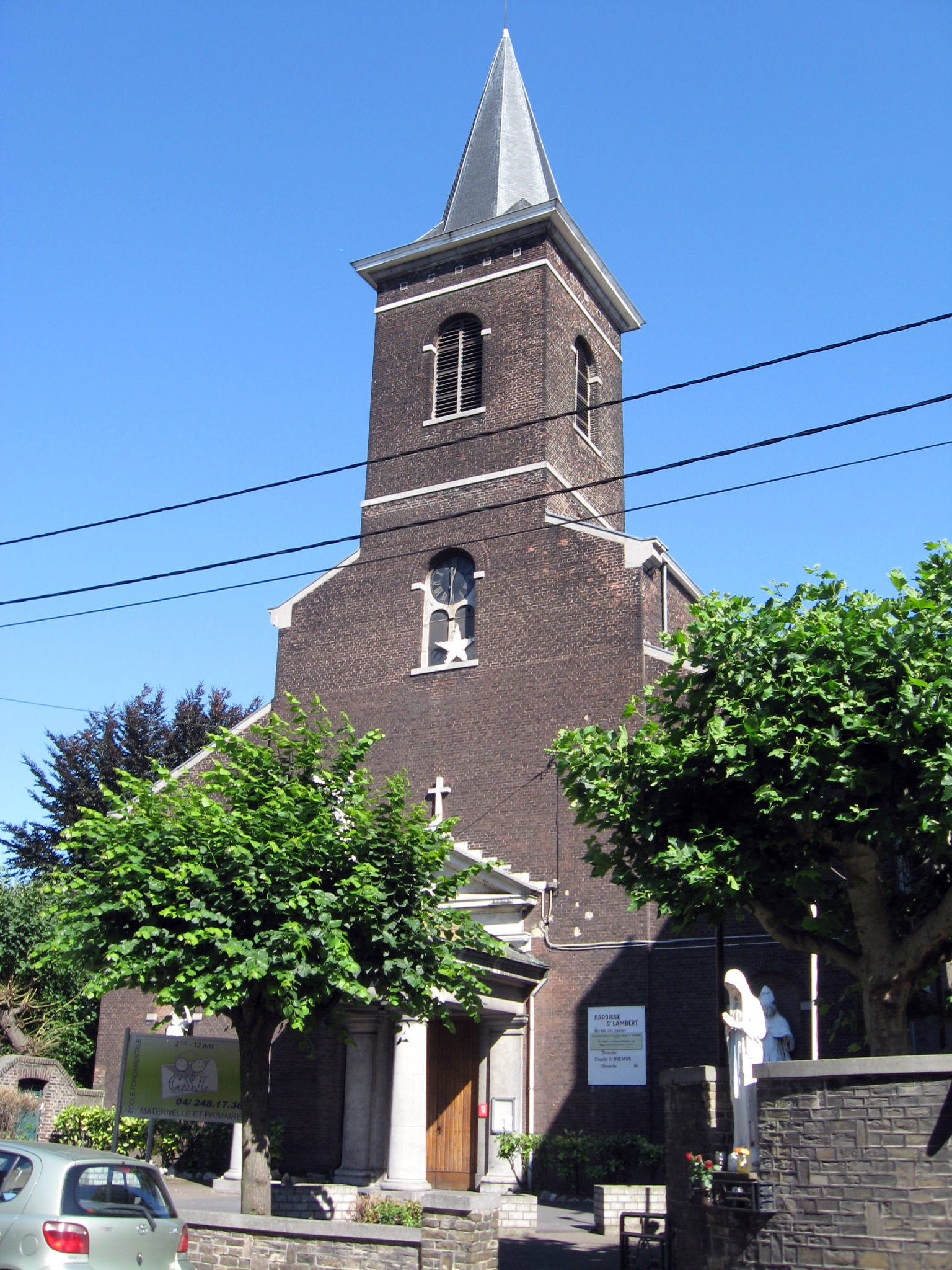 Church of Saint-Lambert in Herstal, Liège, Belgium